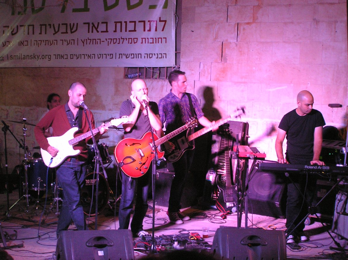 Smilansky street festival 2009